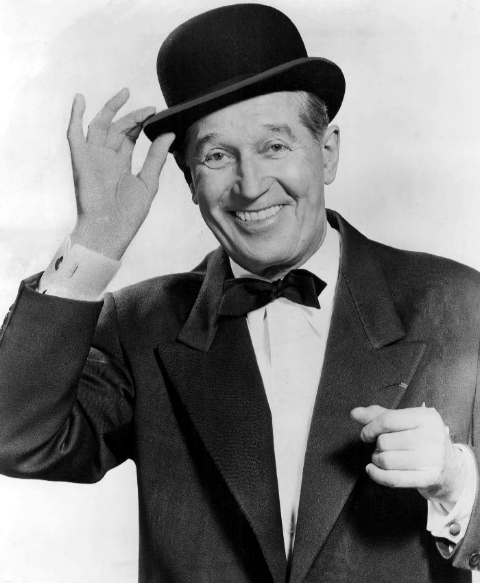 Publicity photo of Maurice Chevalier.